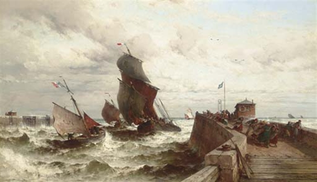 Ships entering a port in a storm. oil on canvas 89.5 x 149.9 cm